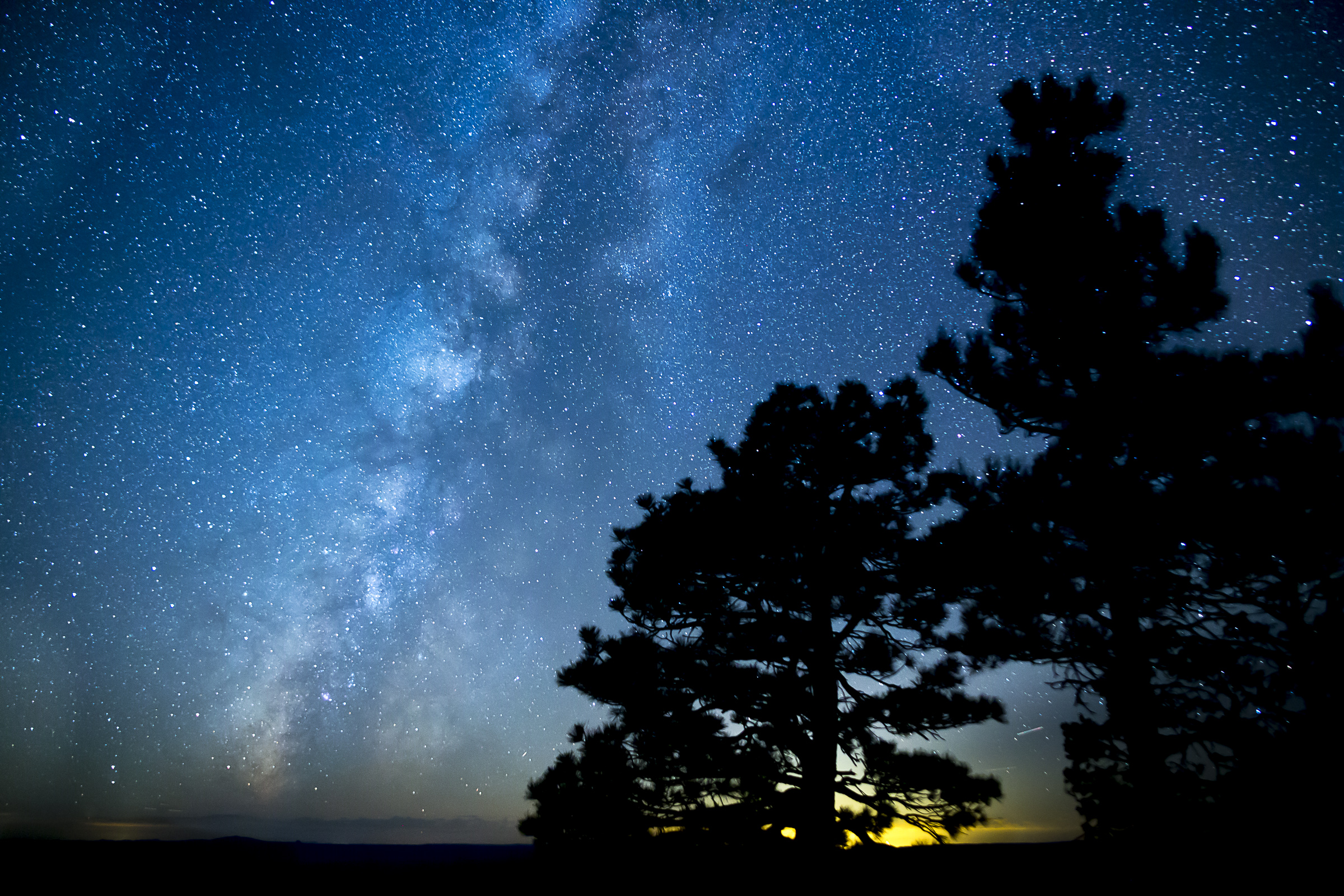 The Grand Canyon-Parashant National Monument is a vast remote landscape where the only nighttime light comes from the stars.